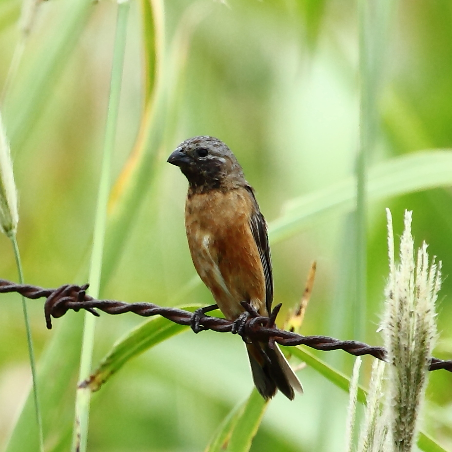 Dark-throated Seedeater Sporophila ruficollis at Ataliva - Santa Fe - Argentina